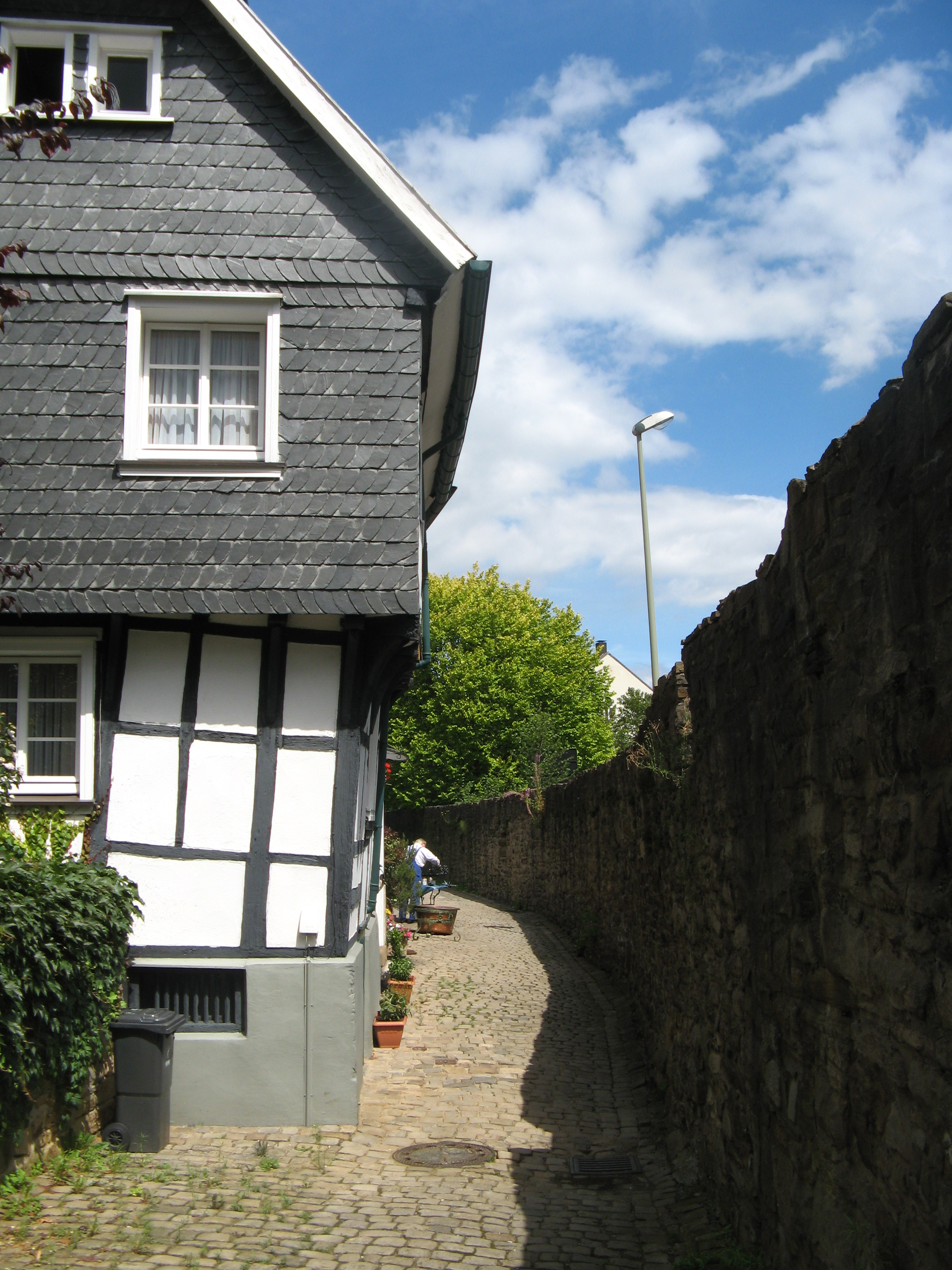 houses directly at the Hattingen town wall, used to combat enemys from.